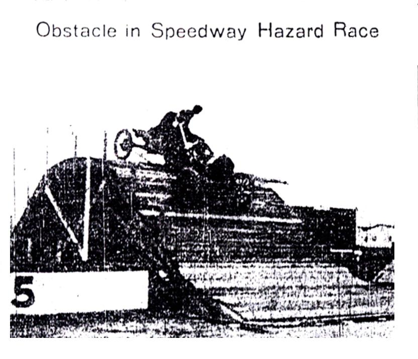 Charlie Merz and Jap Clemmens set the world record for distance covered driving a National Motor Vehicle Company stock car at the Indiana State Fairgrounds in November 1905.